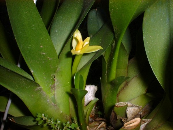 Heterotaxis crassifolia